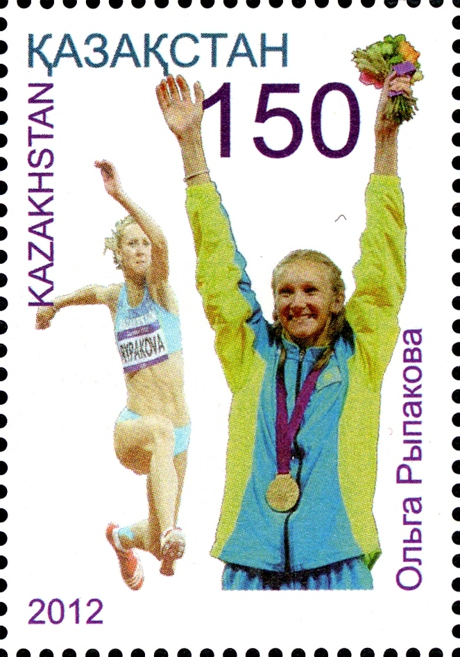 Stamps of Kazakhstan, 2013